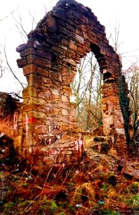 From my own collection